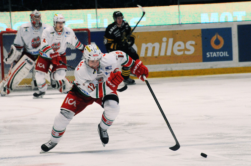 MoDo forward Dave Spina during a SHL game against AIK